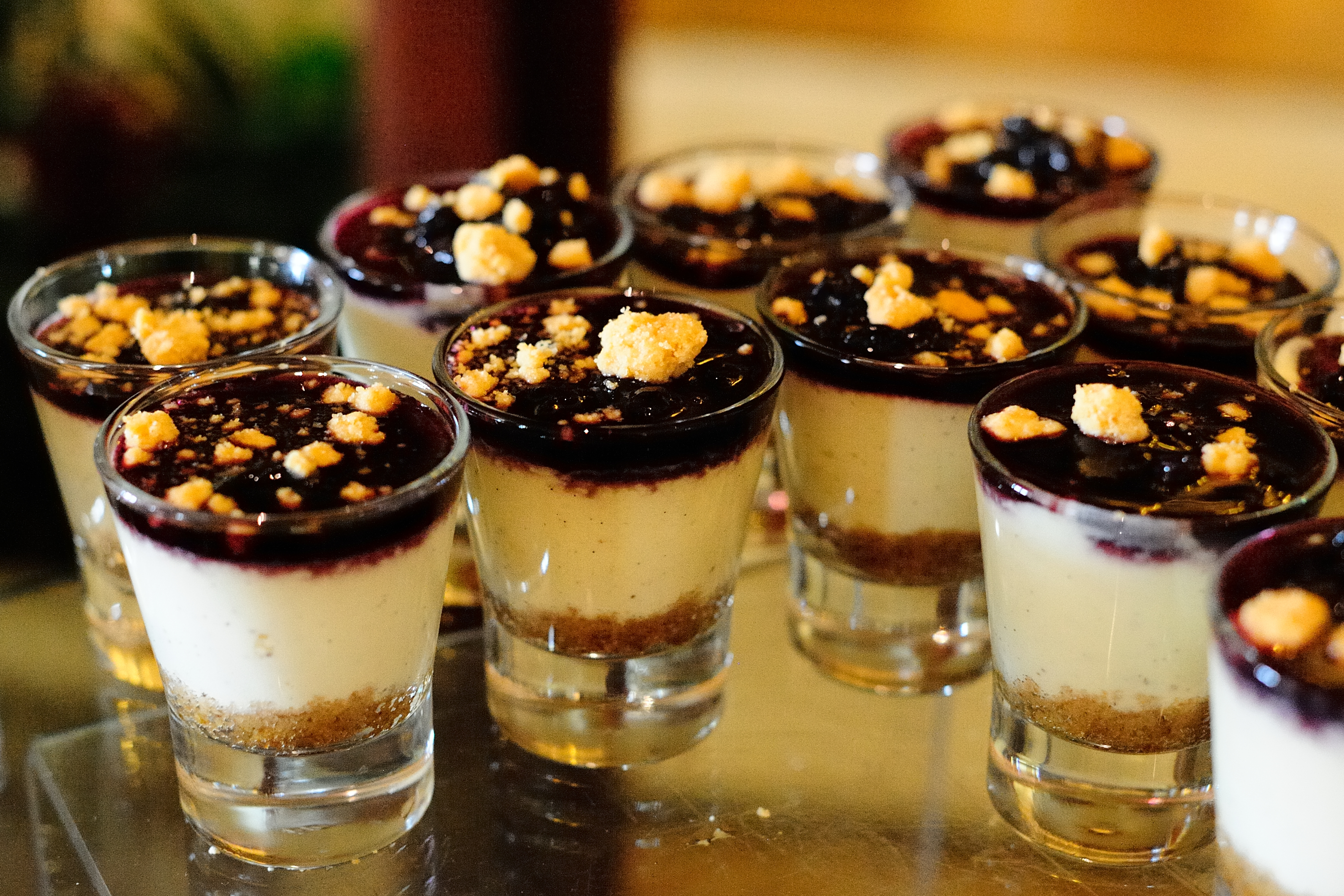 Tumblr